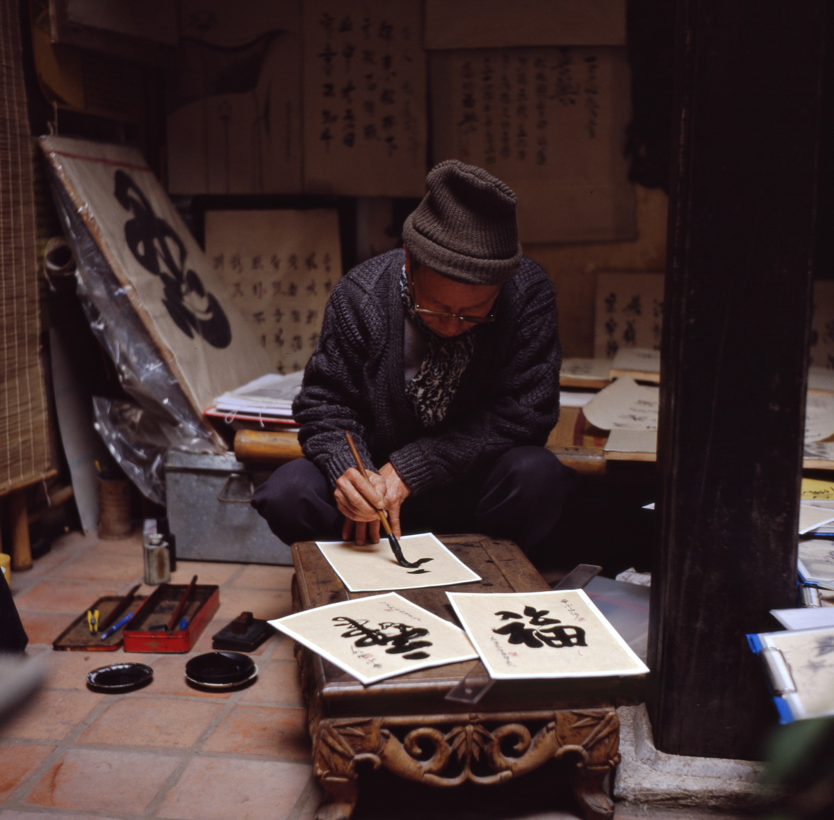 Caligraphy.